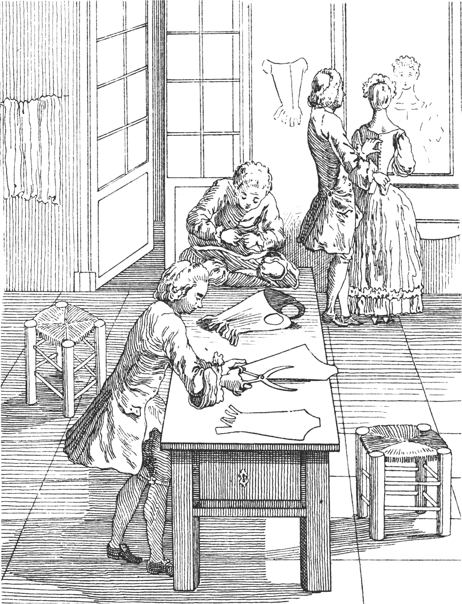 Inside the shop of a tailor.